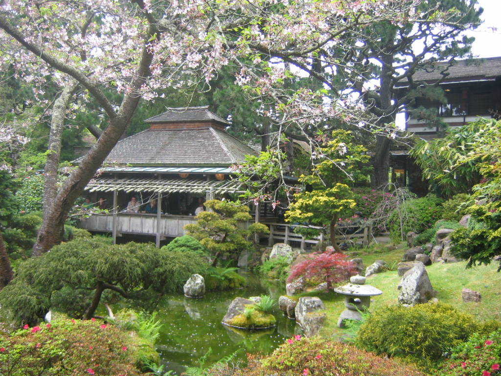 Description : Japanese Tea Garden, Golden Gate Park, San Francisco. Author : own work, Urban ; I took this picture on April 2006.